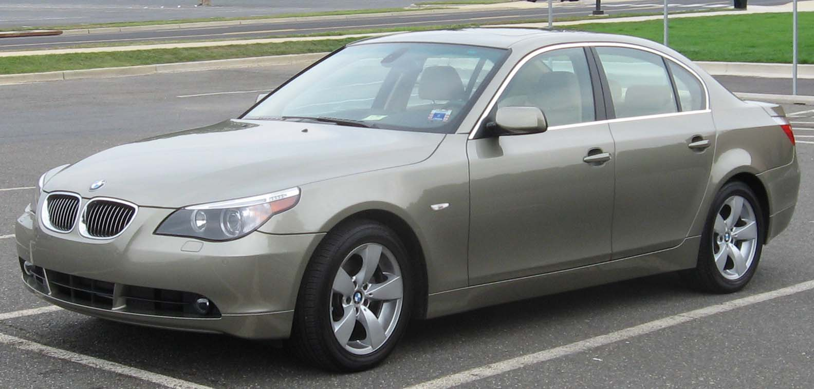 2004-2007 BMW 5-Series photographed in College Park, Maryland, USA.